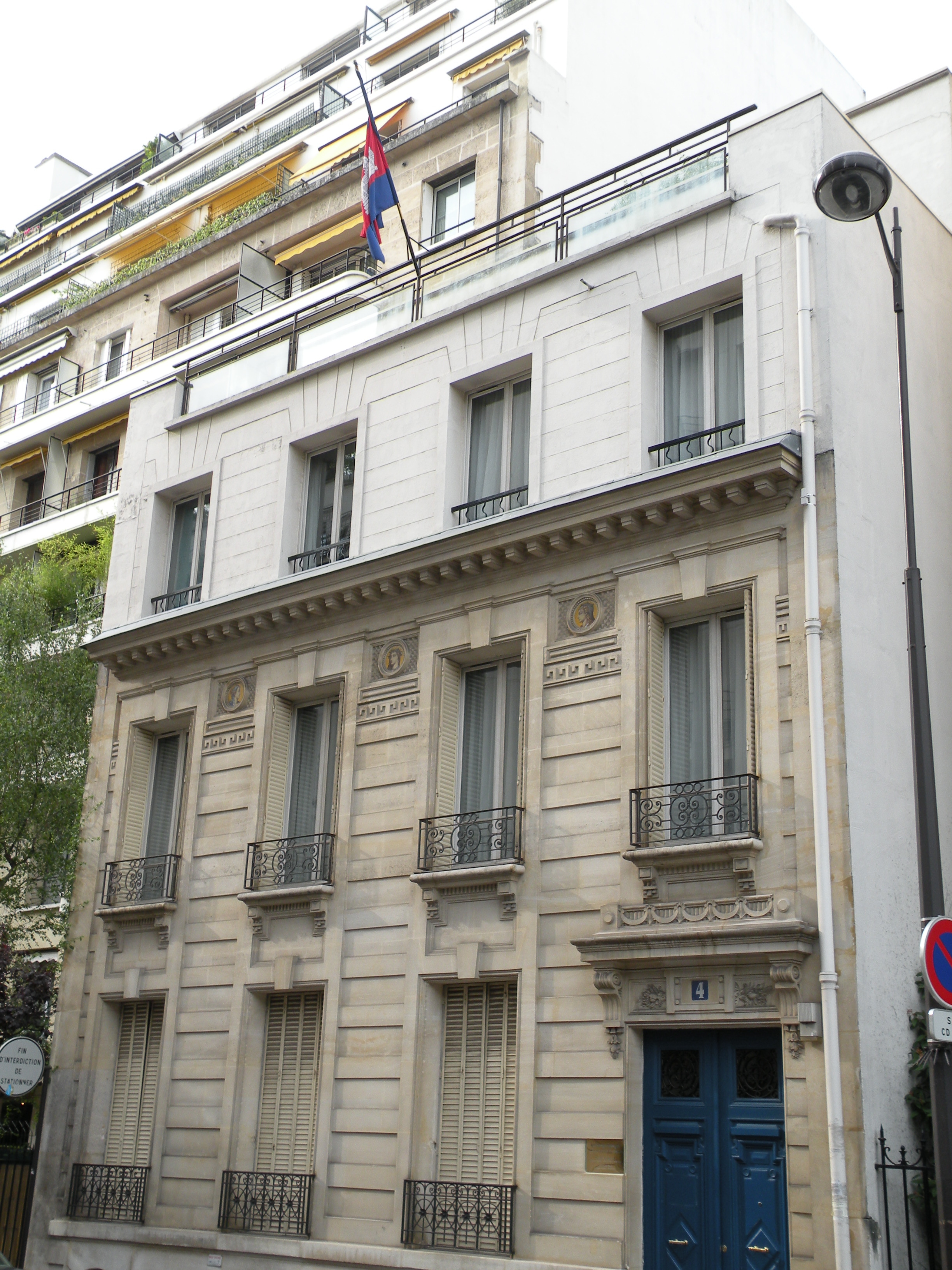 Cambodian embassy in France, Paris.